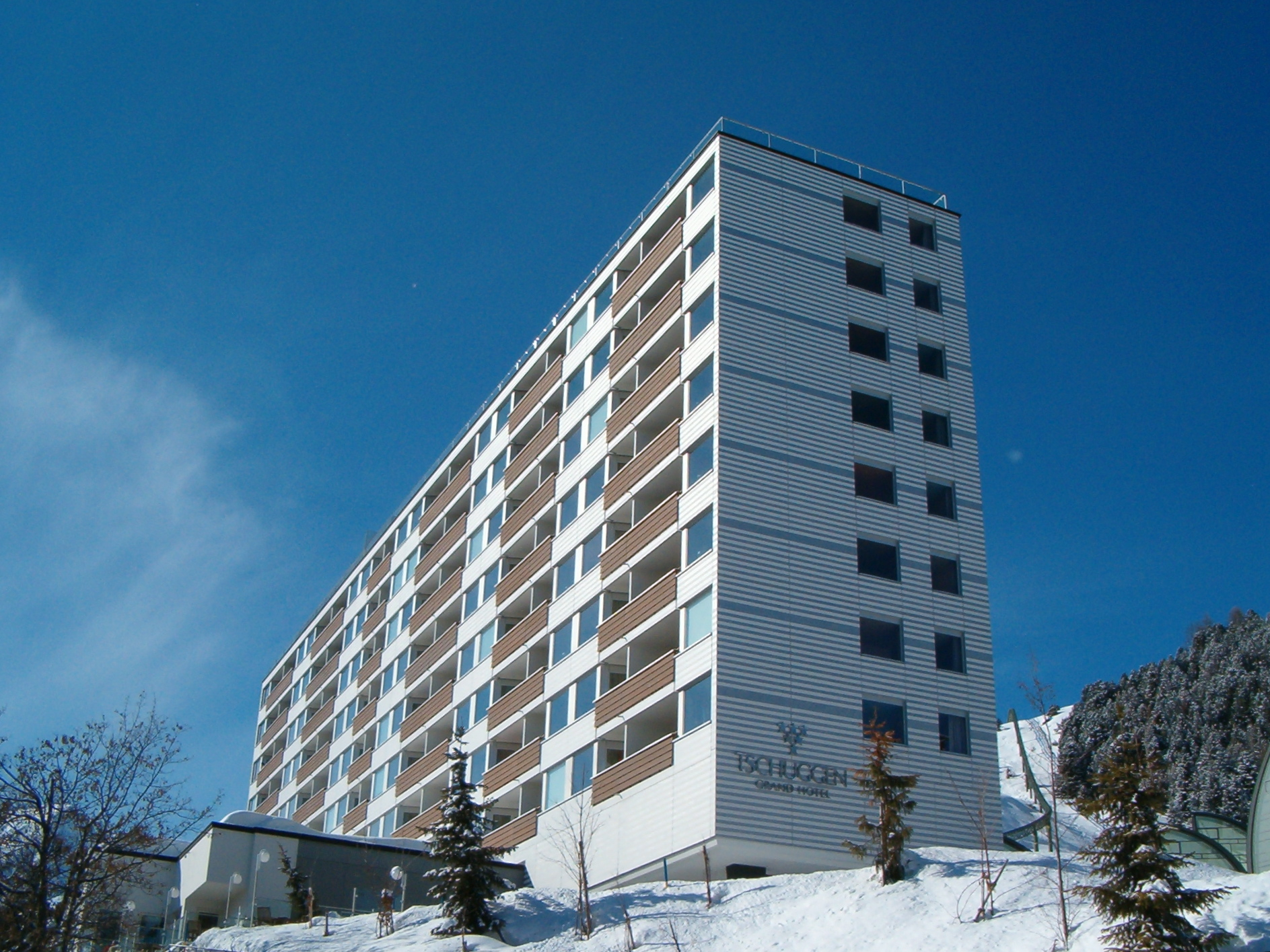 Tschuggen Grand Hotel, Arosa, Switzerland